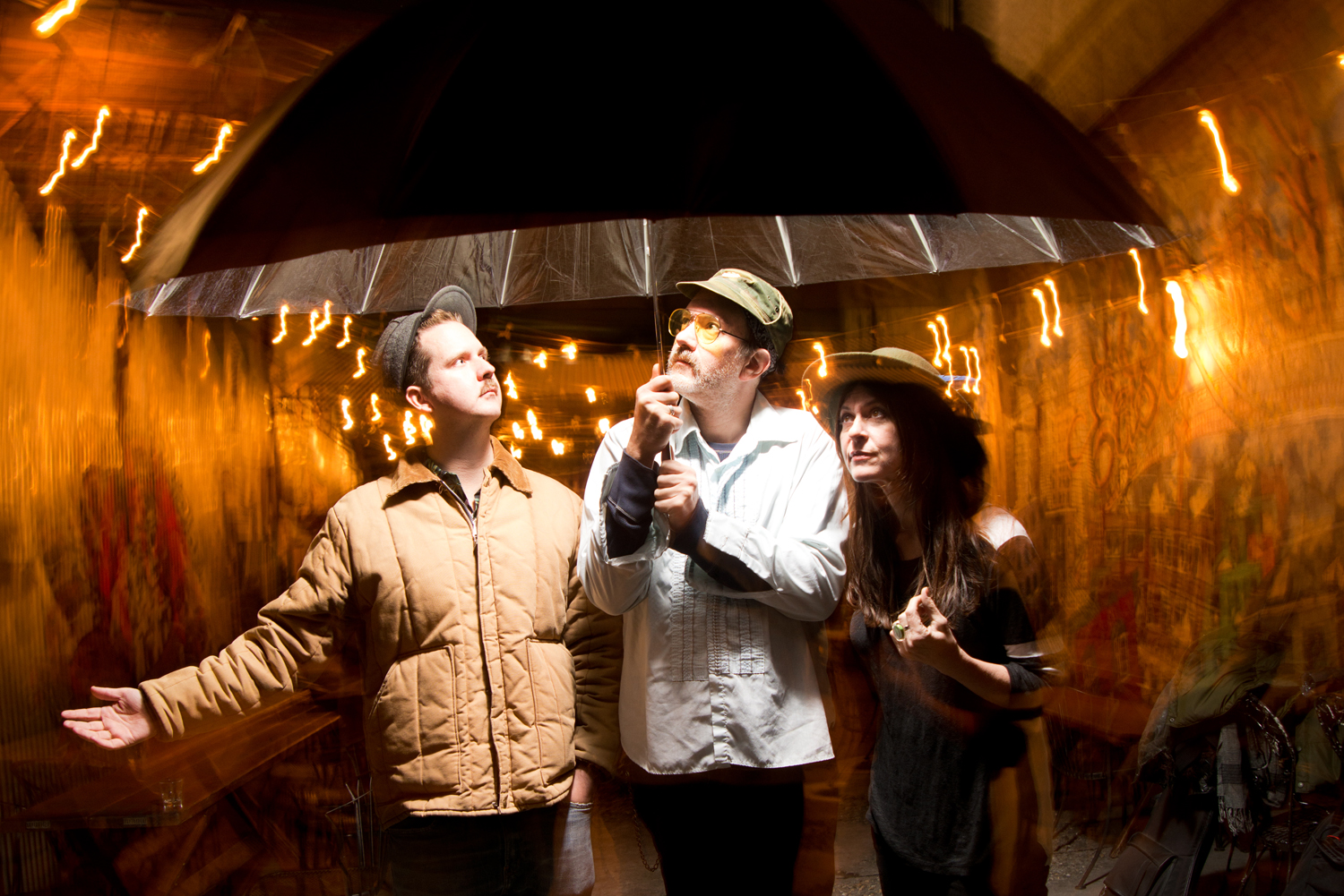 Tuff Sunshine in Williamsburg, Brooklyn 2016. Photo by Dave Rubin.